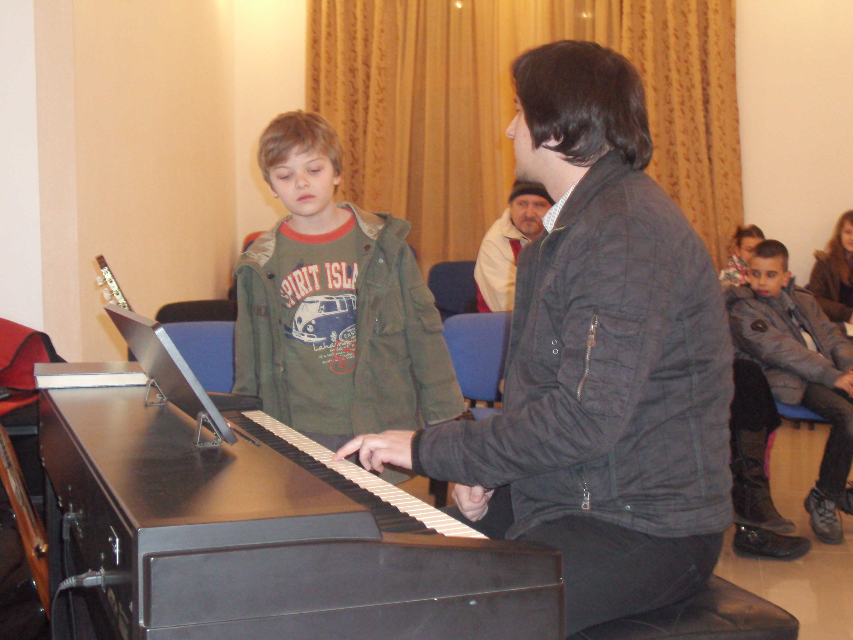 Photo made by Association CEC powered by MEP Avista